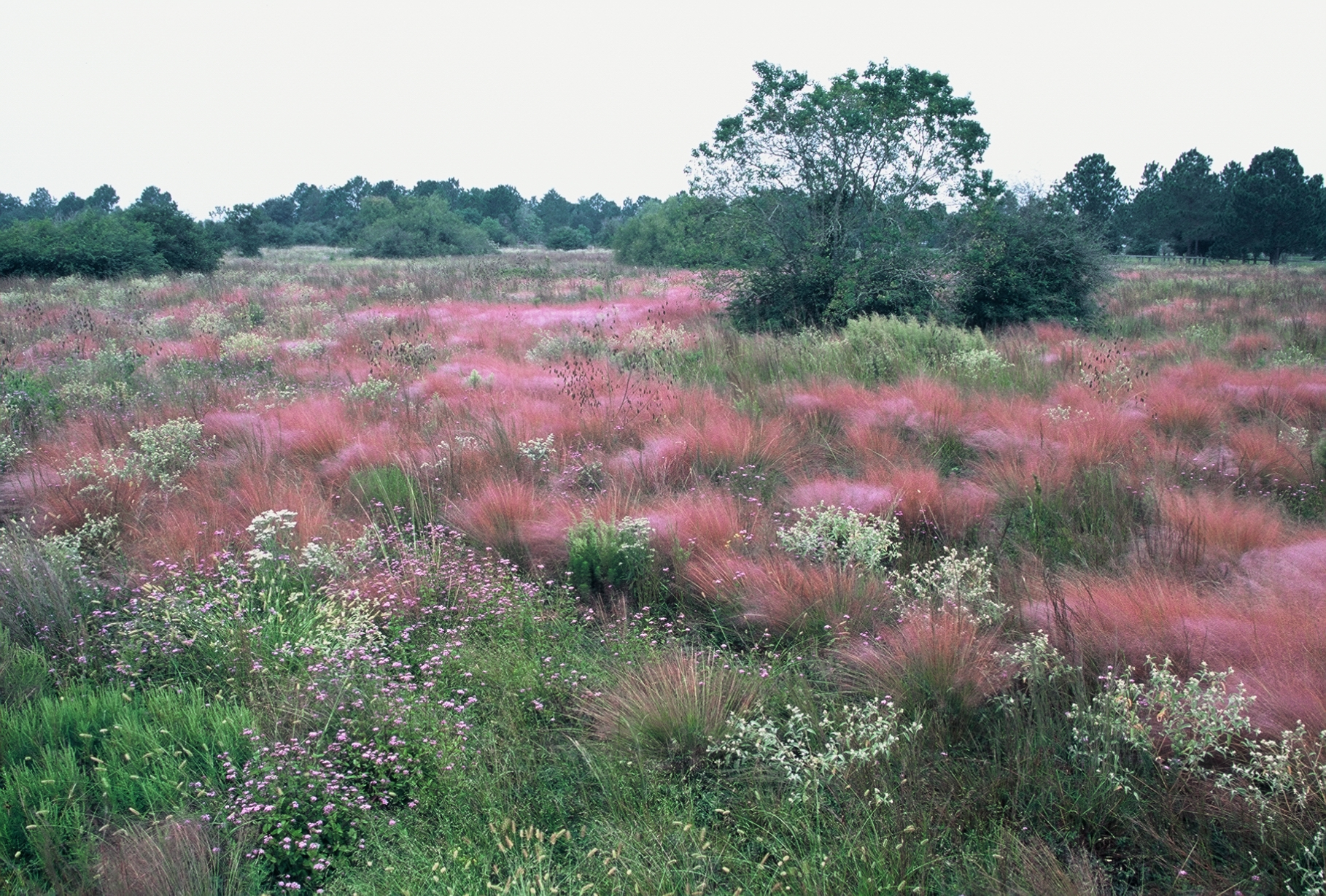 Williams Prairie Preserve — a 10-acre (40,000 m2) remnant prairie preserve of the subtropical grasslands in southeastern Texas In the Western Gulf coastal grasslands ecoregion of the Tropical and subtropical grasslands Biome. A nature preserve of the Katy Prairie Conservancy, located west of Houston, Texas.